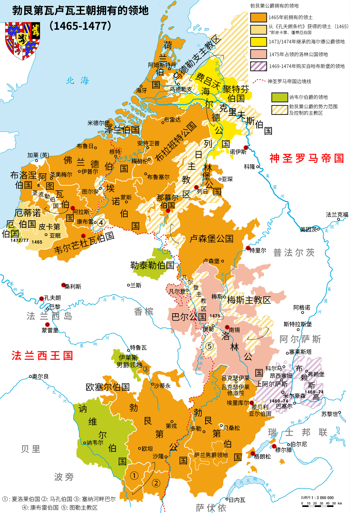 A Chinese version of File:Karte_Haus_Burgund_4_EN.png with some minor modifications.